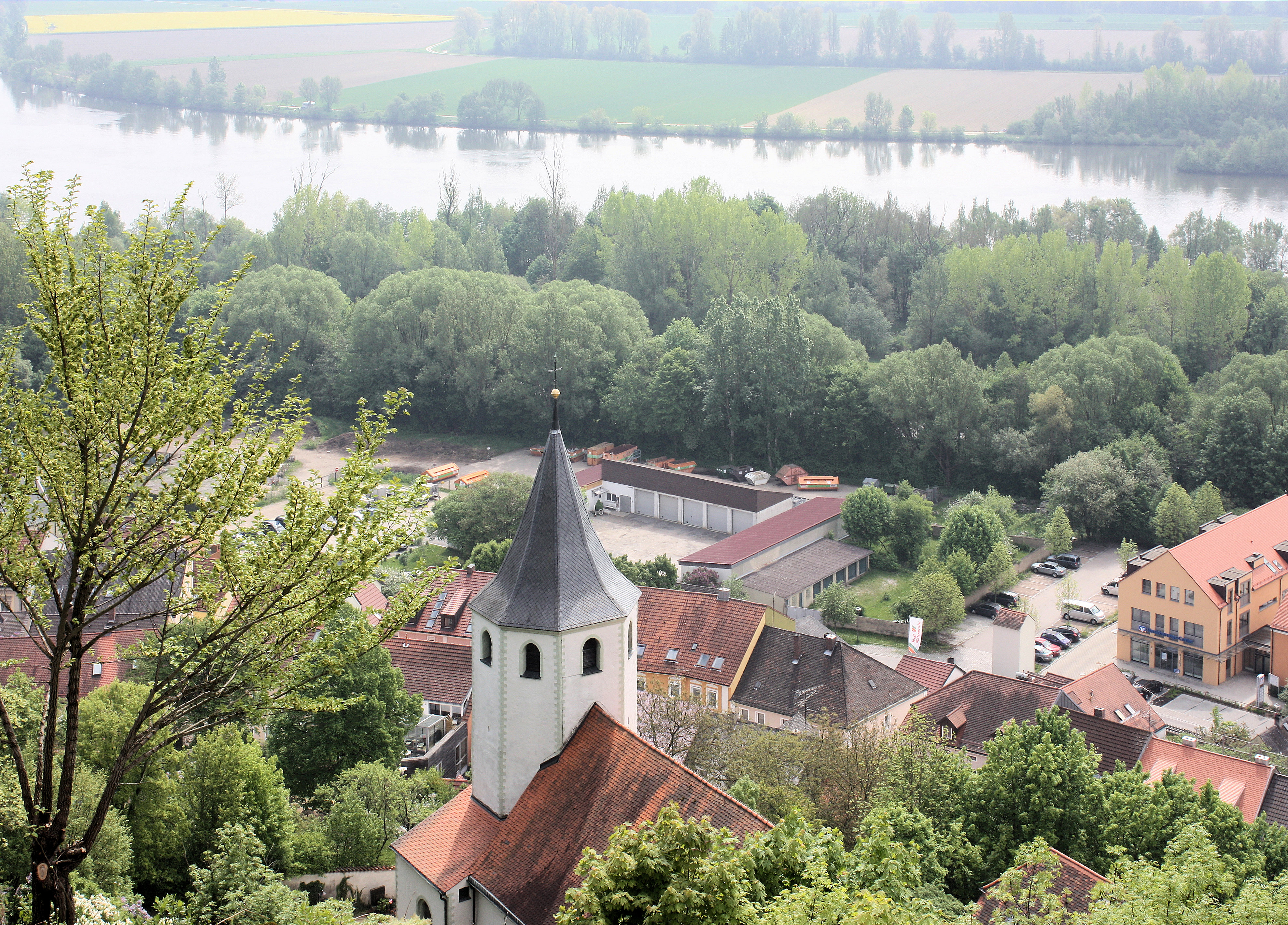 Donaustauf, view from the ruined castle to the church St. Martin